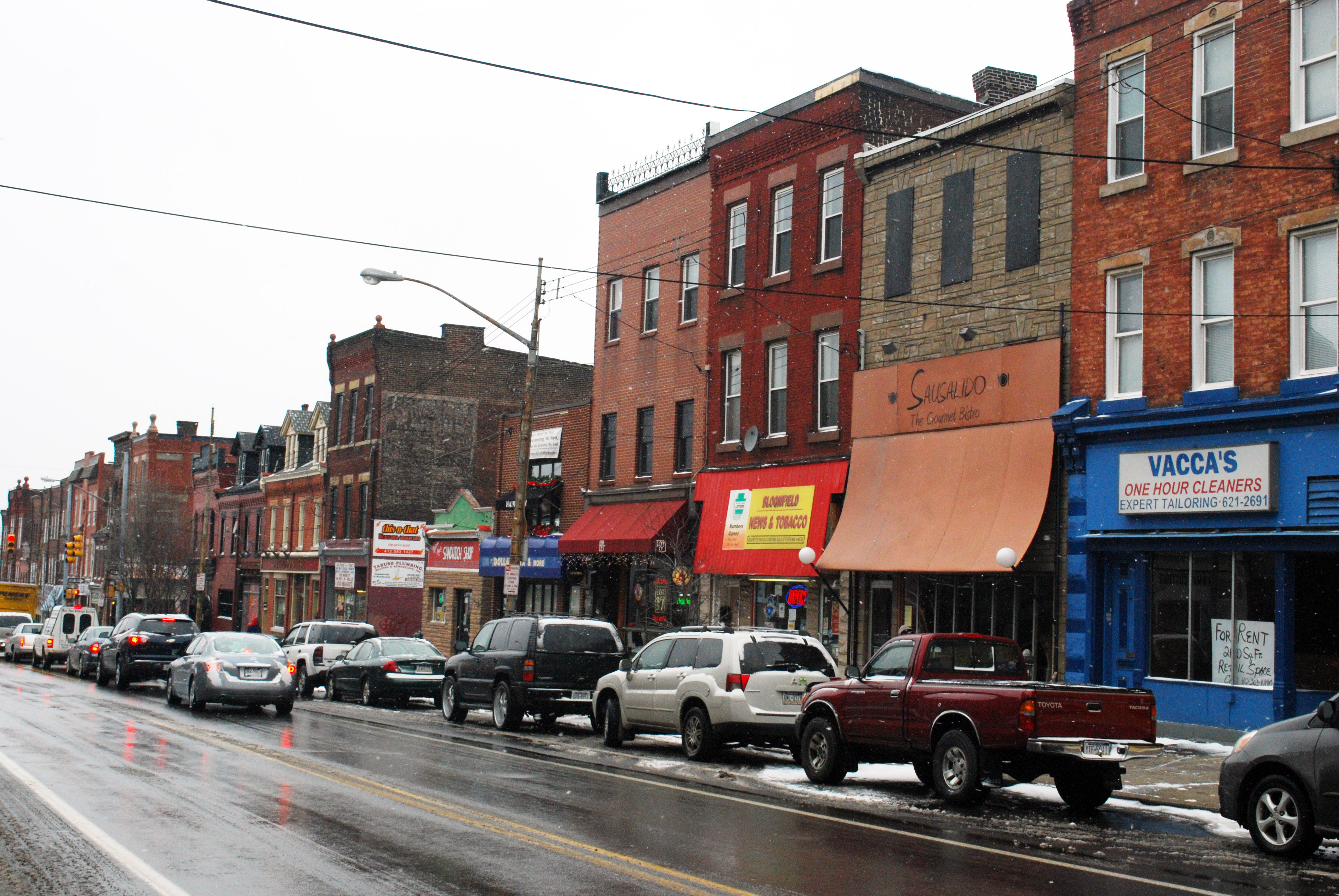 Many shops and restaurants line Pittsburgh's Little Italy's most busy corridor, Liberty Avenue.